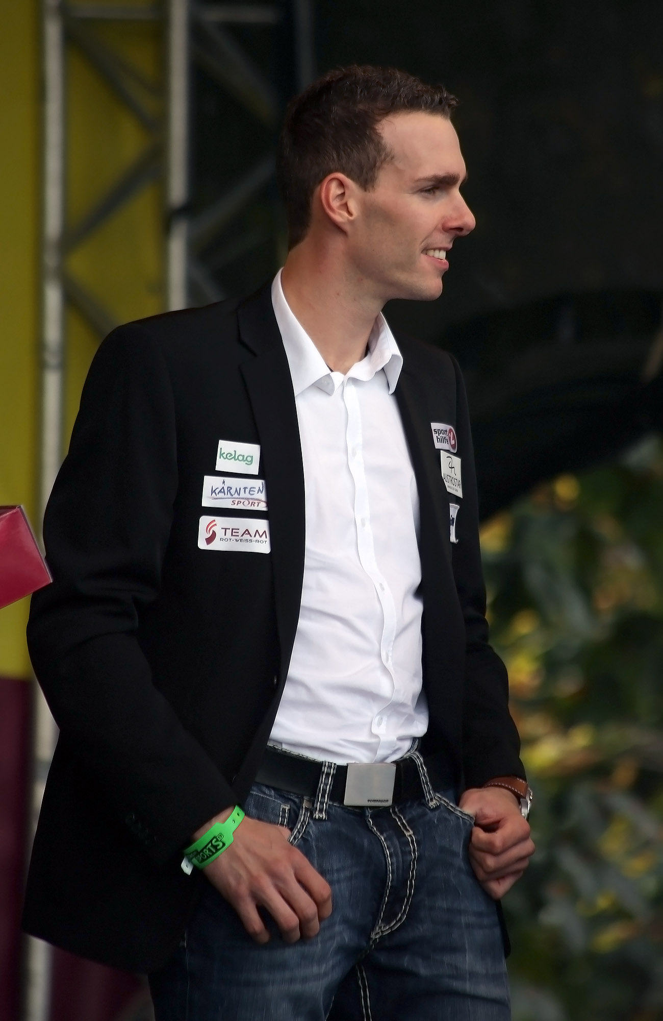 Christian Troger at the Tag des Sports (Day of Sports) 2013 on Heldenplatz in Vienna, Austria.